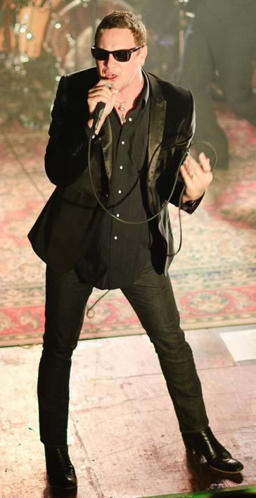 Edit fom Commons File = File:Tgfkevinbig.jpg